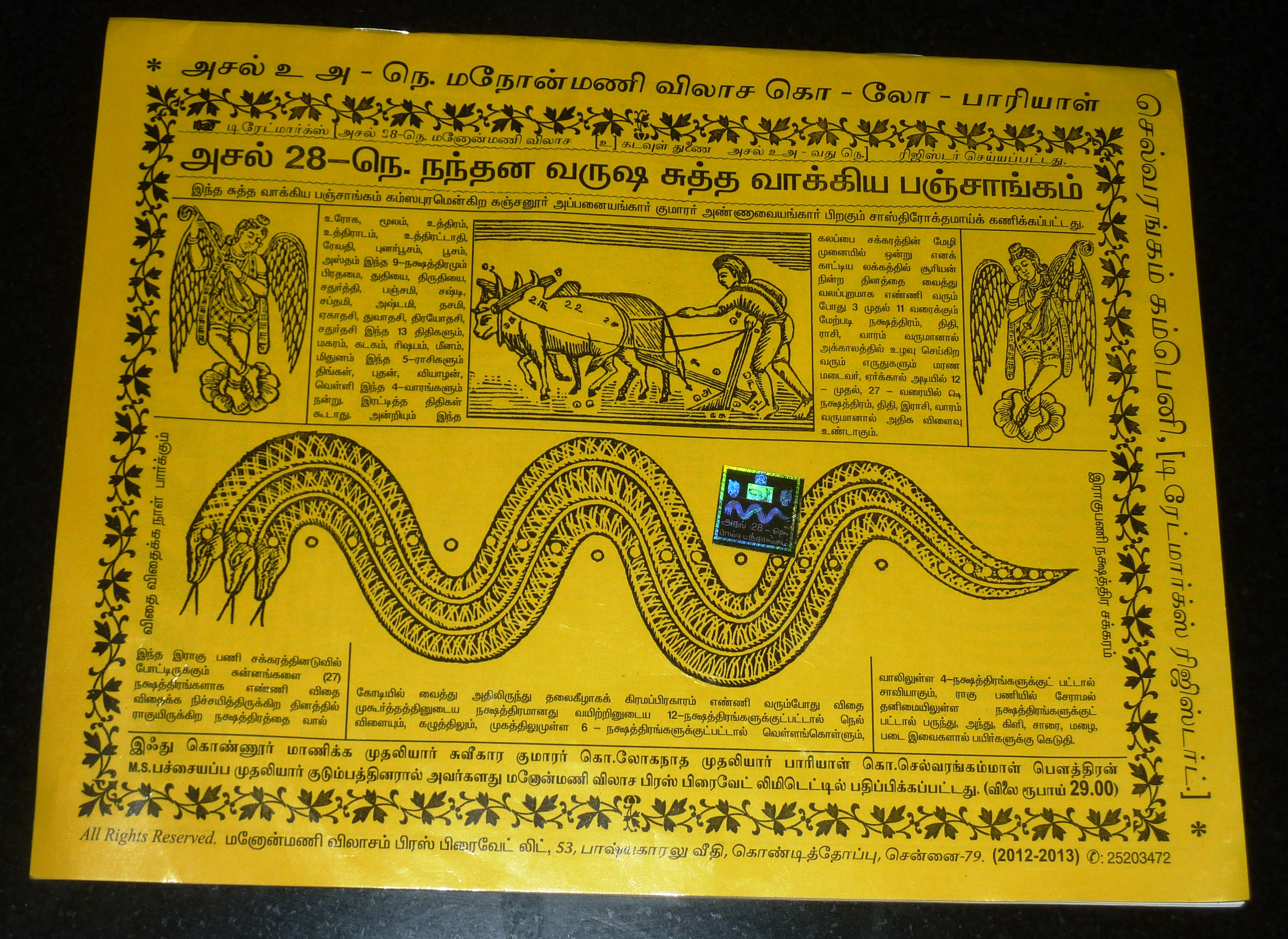 Tamil panchangam/panjangam's outer cover